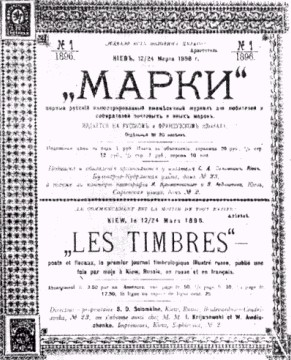 Russian philatelic magazine "Marki". - № 1. - 1896